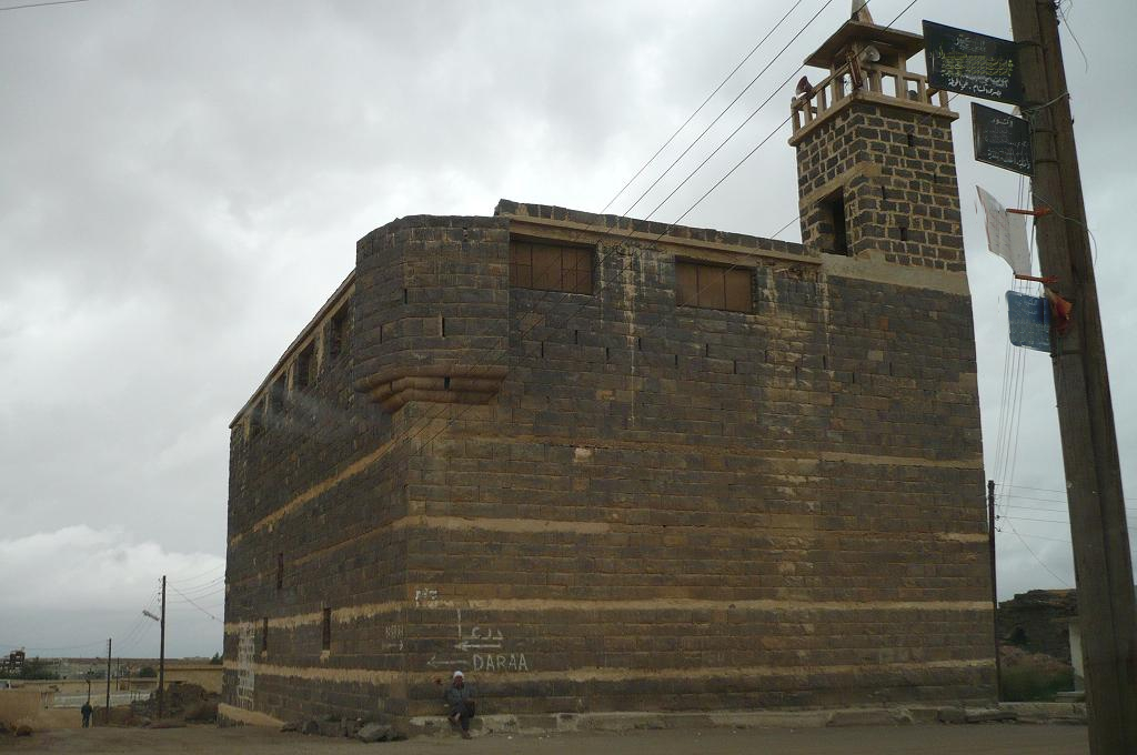 Marba old Mosque.